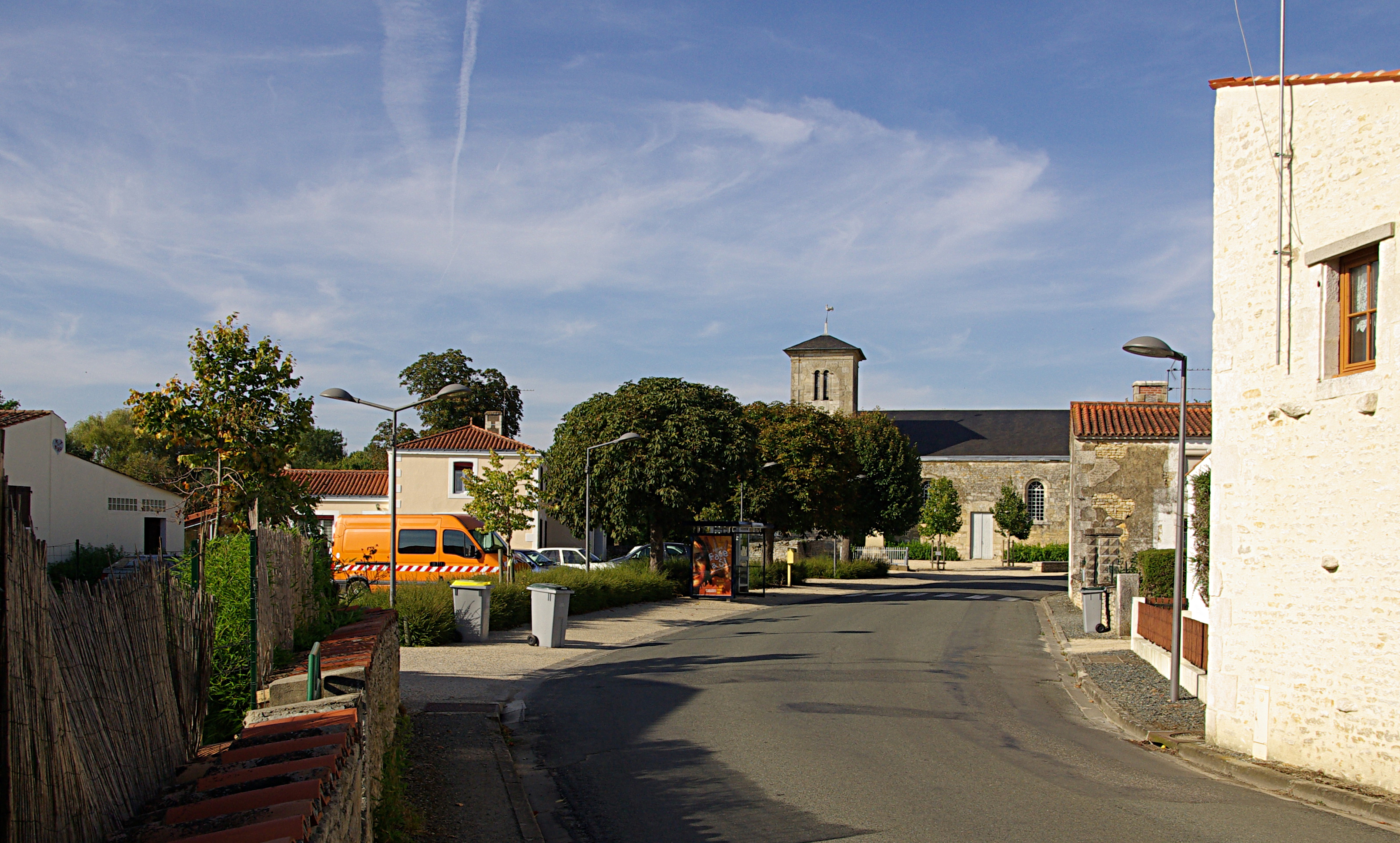 Saint-Sigismond village in Vendée.